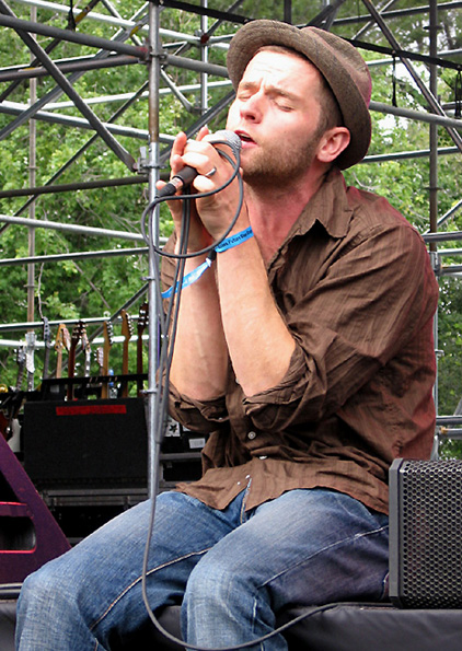 David Ford performing at the Virgin Festival, Toronto, Canada 2006